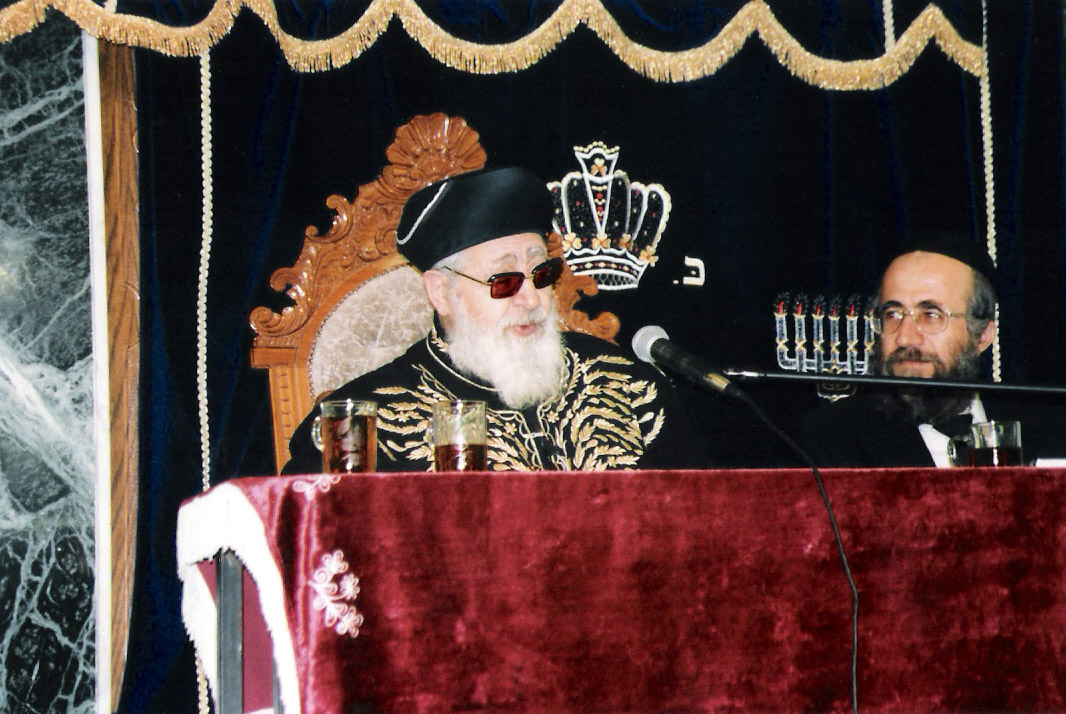 Rabbi Ovadia Yosef during his weekly sermon in the Bukharian quarter in Jerusalem